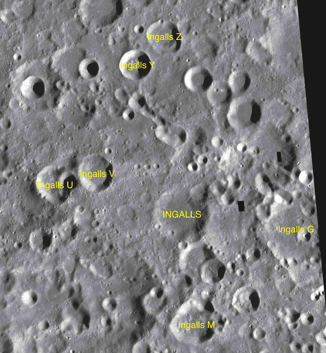 Part of the chart LAC-51 used for the presentation